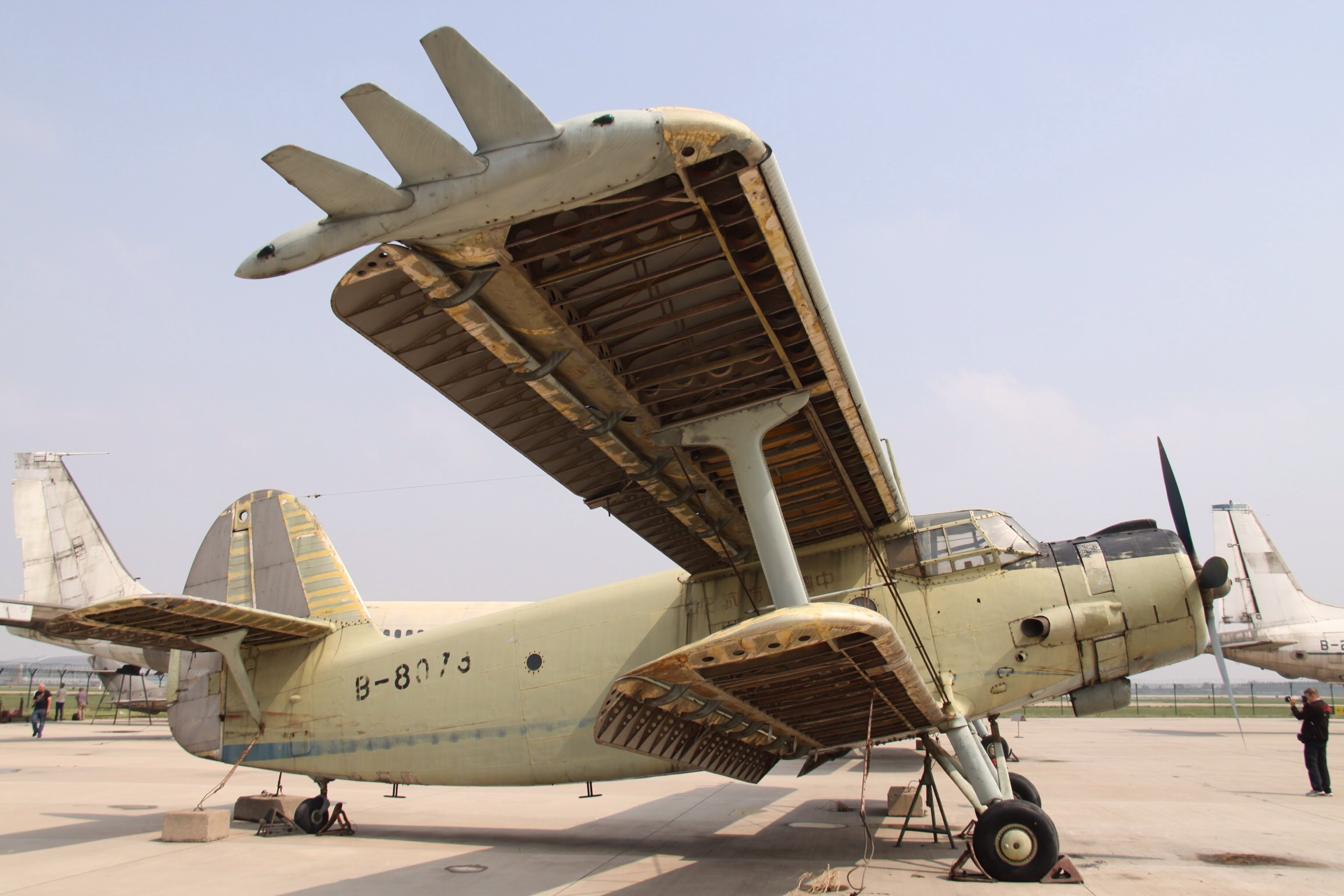 At Tianjin Binhai International